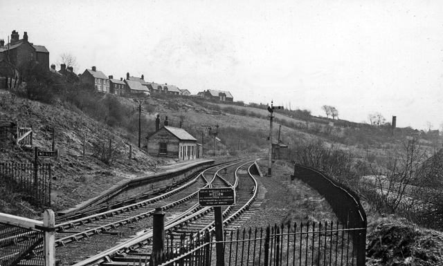 Brymbo (GW) Station (remains). View SE, towards Wrexham; ex-Great Western Wrexham - Minera line, junction of ex-London & North Western branch from Mold. The GWR passenger service from Minera (Berwig Halt) was cut back to Coed Poeth in 1/26 and through to Wrexham on 1/1/31; the station was closed on 27/3/50 when the service from Mold ceased. However, Brymbo station remained open for goods until 2/11/64 and the line saw through goods trains until 1/10/82.